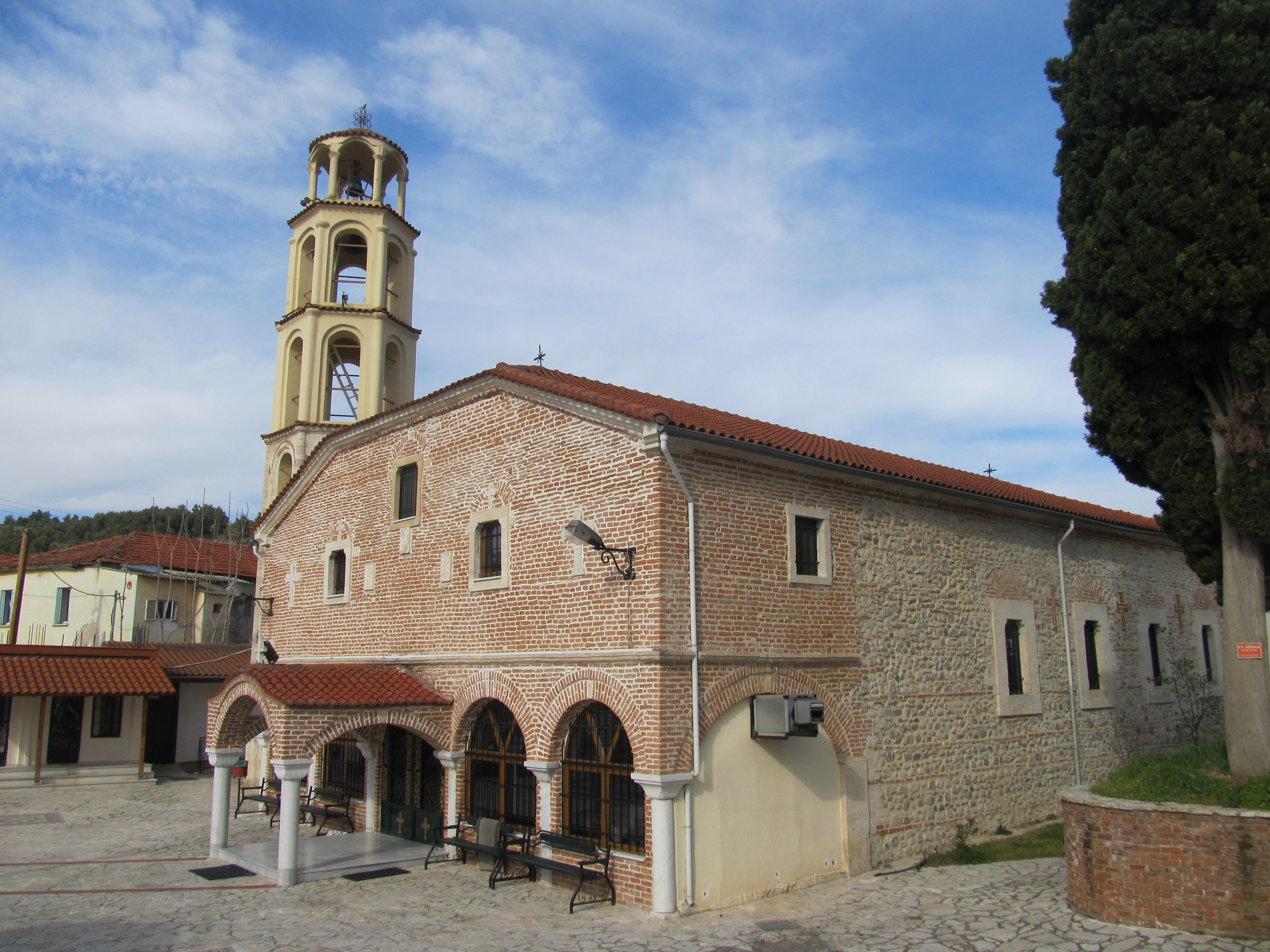 Church of St. Cosmas and Damian, Serres, Greece